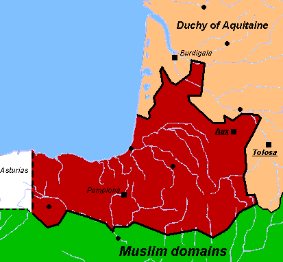 Map of the Duchy of Vasconia (red) under Eudes the Great (c. 710-740), when it was in personal union with the Duchy of Aquitaine.